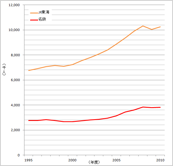 Vehicle ridership of Kariya Station.